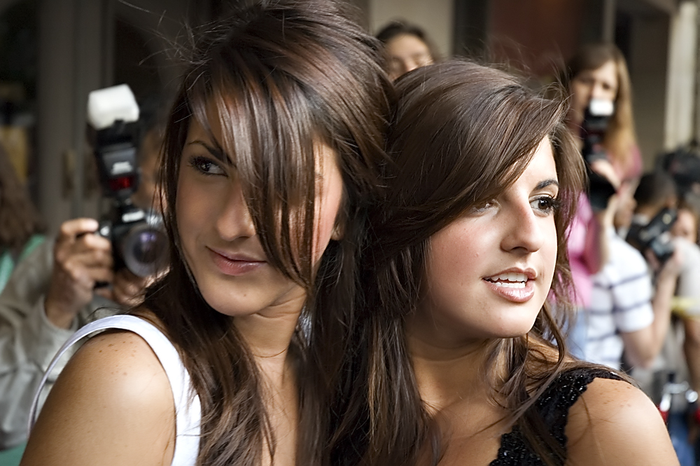 Actresses Elise Avellan and Electra Avellan (the Avellan Twins) at the premiere of Grindhouse, Austin, Texas.